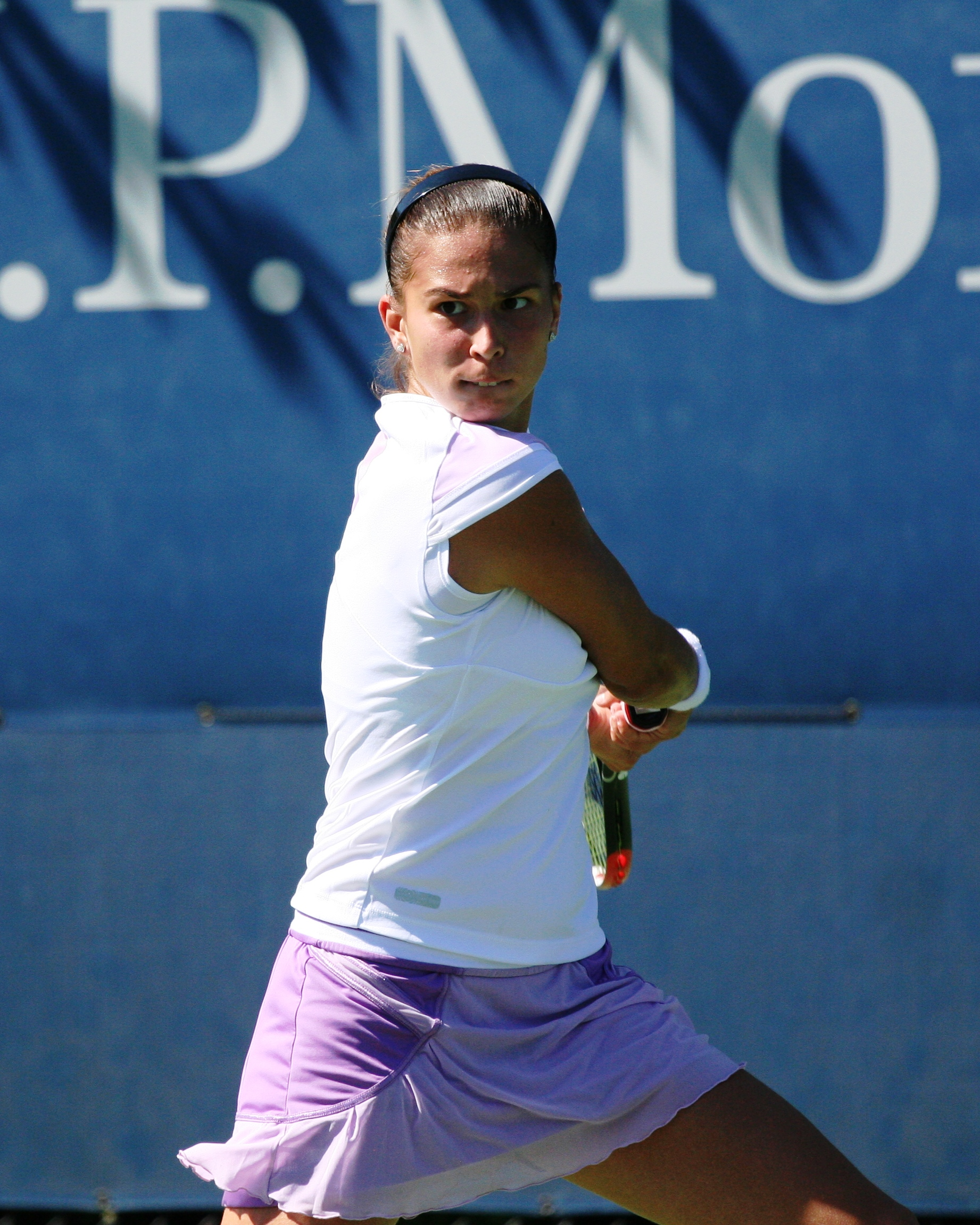 Chantal Škamlová at the 2010 US Open